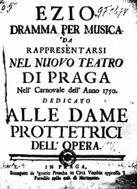 Title page Ezio opera